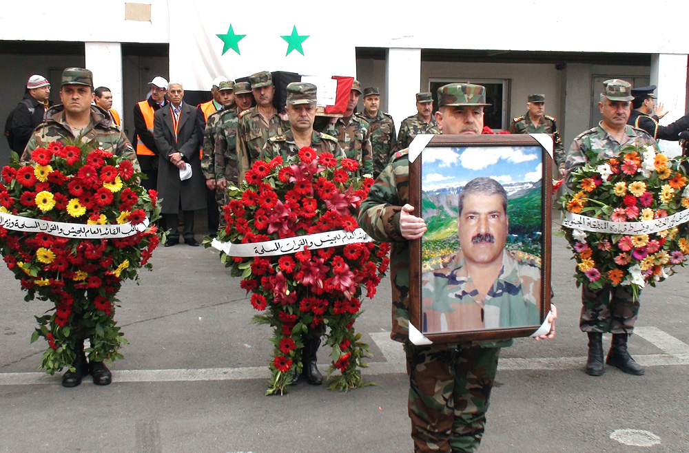 The funeral procession of Syrian General Mohammed al Awad Jan. 17, killed in Damascus on Monday. Photo taken by VOA Middle East correspondent Elizabeth Arrott while traveling through Damascus with government escorts.